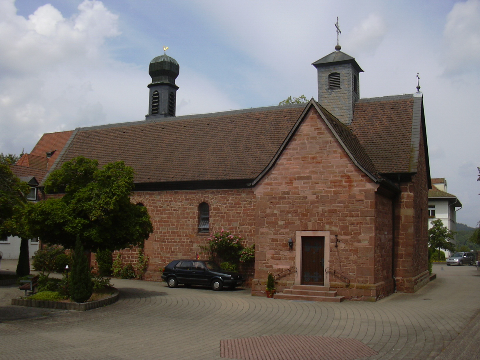 Pilgrims' Church Maria Rosenberg, original Gothic chapel, Burgalben, Palatinate/Germany